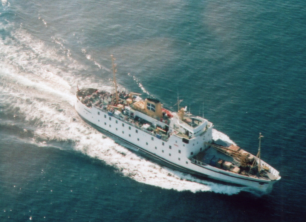 Scillonian III as seen from the air halfway between St Mary's and Penzance. IMO Number: 7527796 MMSI Number: 232001270 Callsign: GWOS Length: 40 m Beam: 15 m